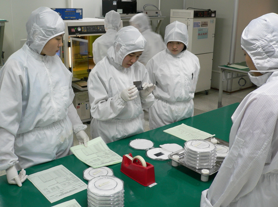 Group inspecting an optical circuit after the wafer dicing saw.